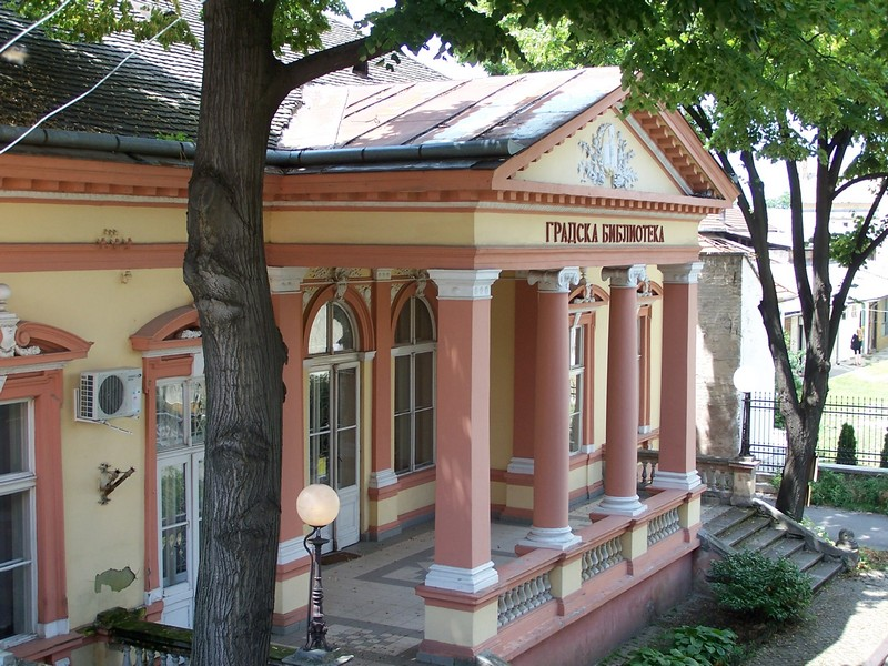 Sombor. Children's library.